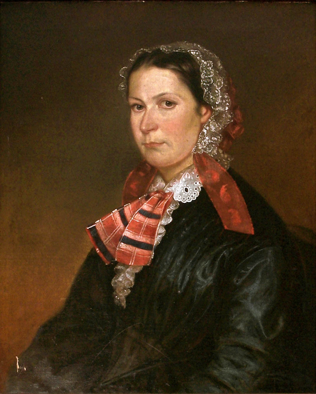 Peter Michal Bochun: Portrait of a woman with a hood, Bielsko-Biała Museum, Poland